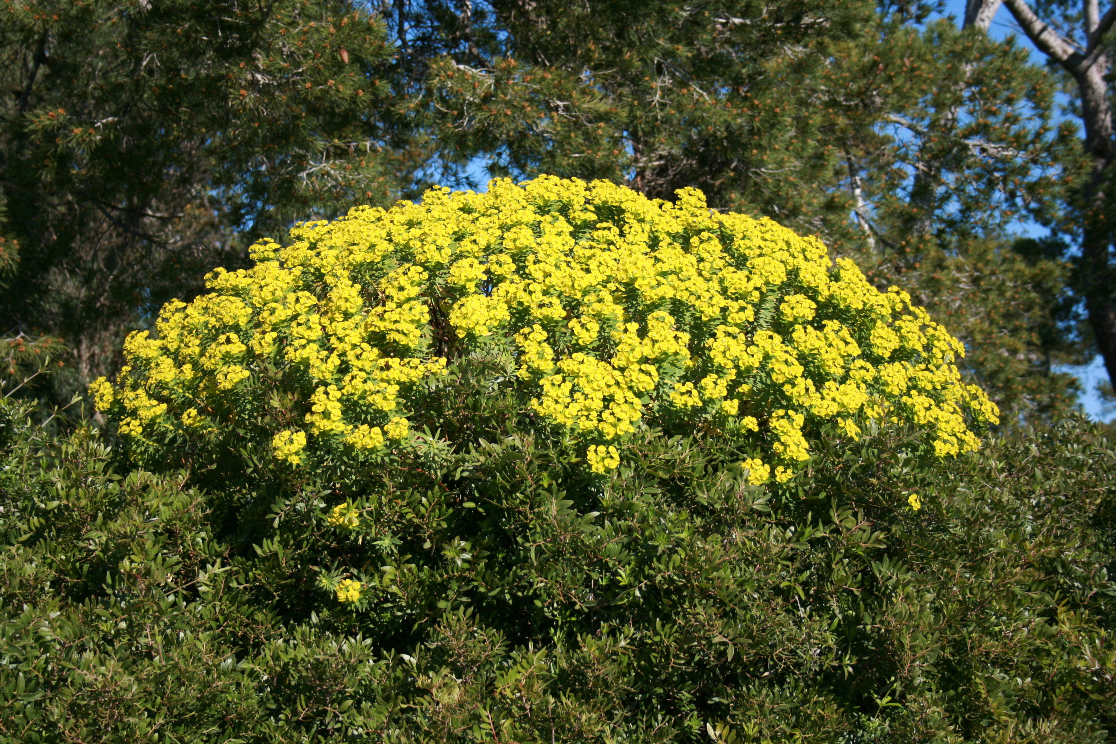 Euphorbia dendroides growing along the Cami de Manresa in Alcúdia, Mallorca